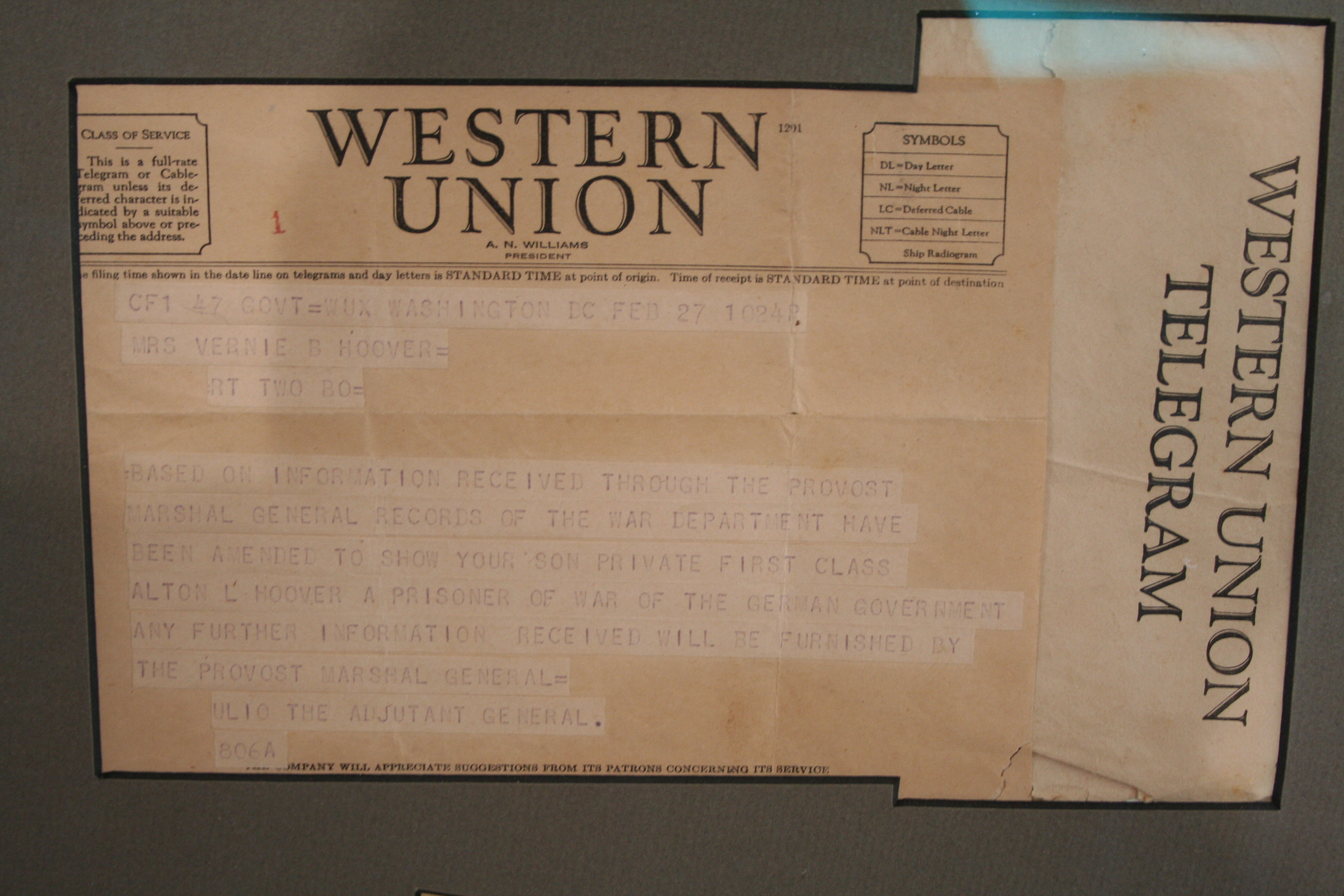 telegram sent to parents informing them that their son was taken as a prisoner of war German prisoner of war. Taken at the North Carolina Aviation Museum